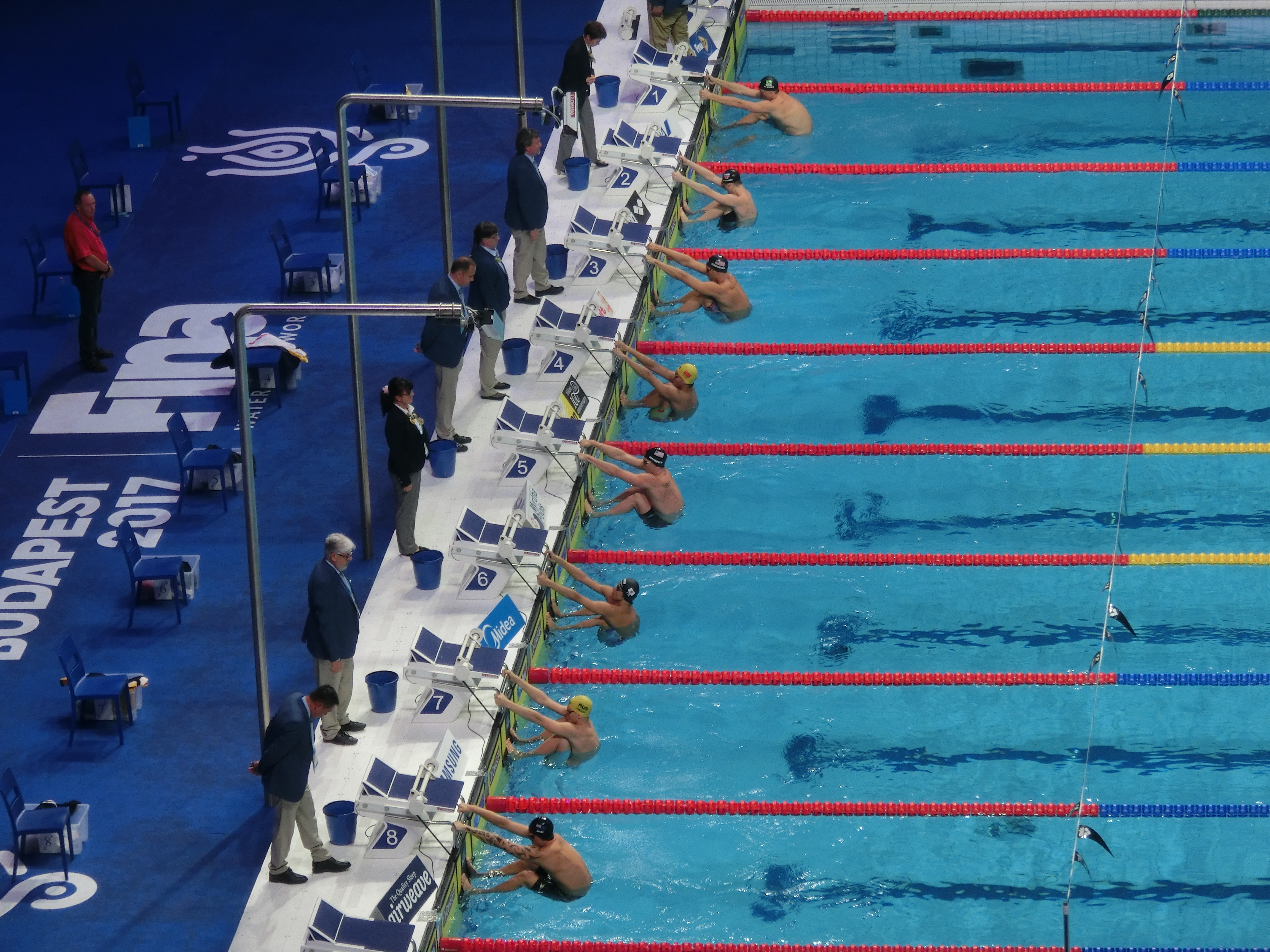 FINA World Championships, Budapest, 2017-07-25, 100m backstroke men final Lane 1: Guilherme Guido (Brazil) Lane 2: Grigory Tarasevich (Russia) Lane 3: Matt Grevers (USA) Lane 4: Jiayu Xu (China) Lane 5: Ryan Murphy (USA) Lane 6: Ryosuke Irie (Japan) Lane 7: Mitchel Larkin (Australia) Lane 8: Corey Main (New Zealand)